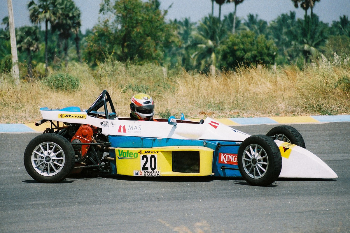 A FISSME of Formula Maruti Single Seater racing Car G27 11:51, 30 January 2007 (UTC)